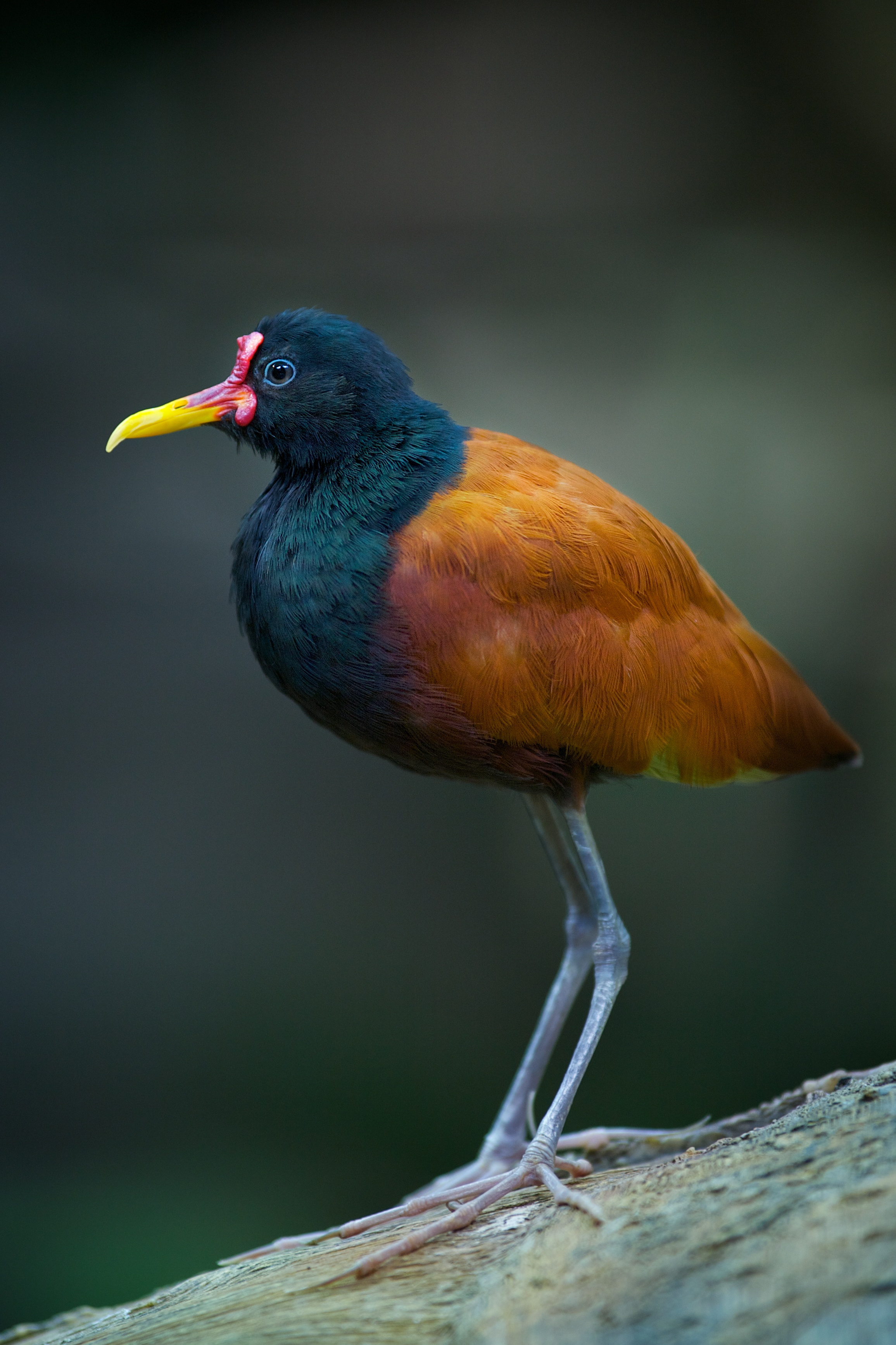 A Wattled Jacana in Cleveland Metroparks Zoo, Ohio, USA.